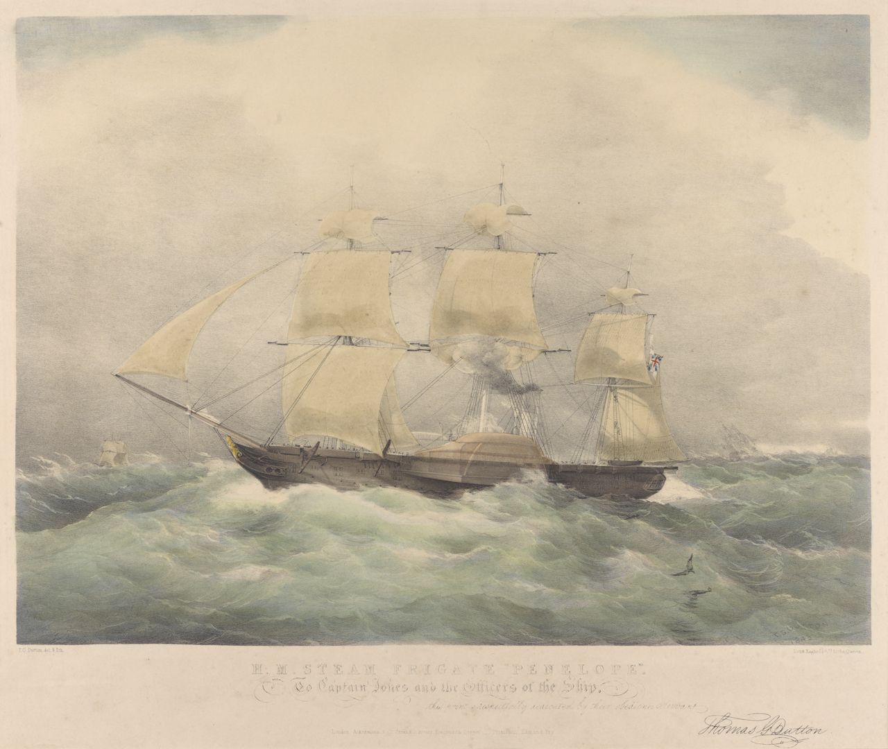 H.M. Steam frigate Penelope... Hand-coloured. H.M. Steam frigate Penelope...